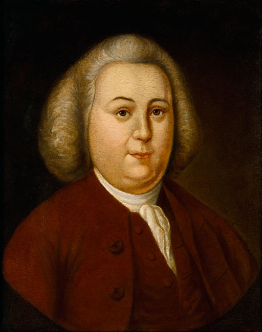 Portrait of Peyton Randolph (1721-1775)